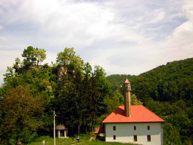 Mosque in Teočak, Bosnia and Herezegovina